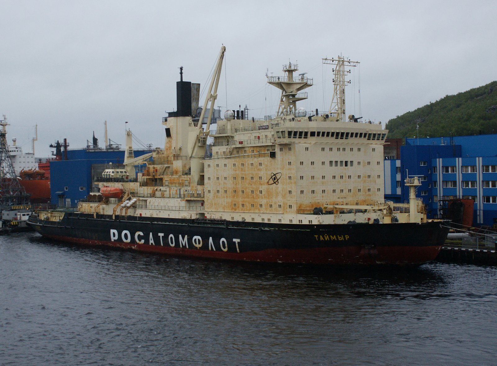 Nuclear i/b "Taimyr" in Murmansk (July 2012)